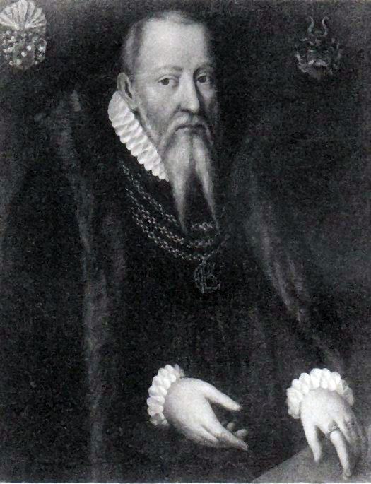 Christoffer Gøye (died 1584), posthumous portrait in Gevnø Castle